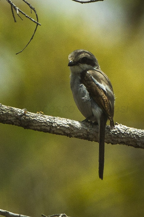 Lanius souzae, probably adult female